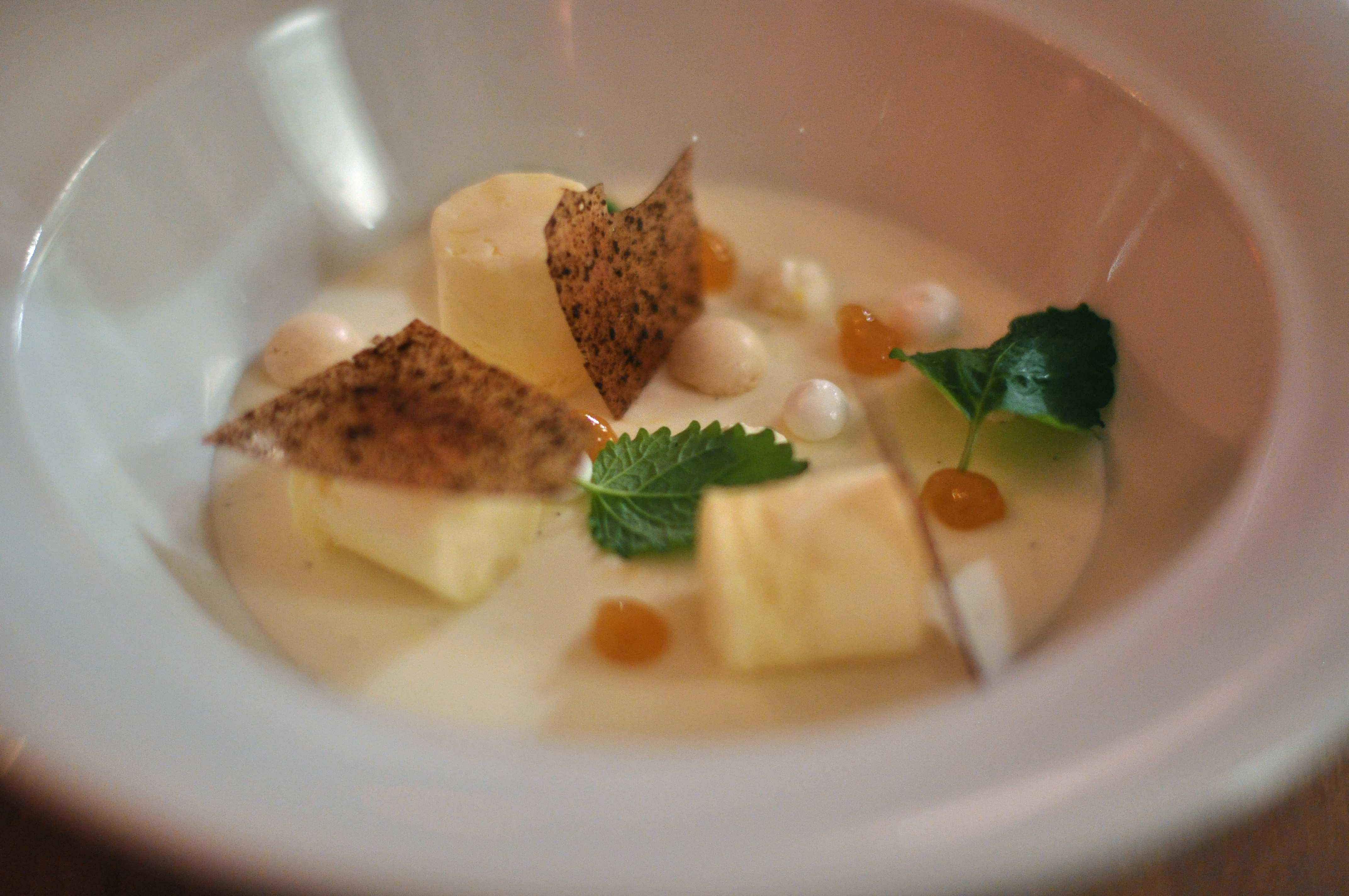 Citronfromage med marengs og parfait af hvid chokolade (Lemon soufflé with meringue and parfait of white chocolate)